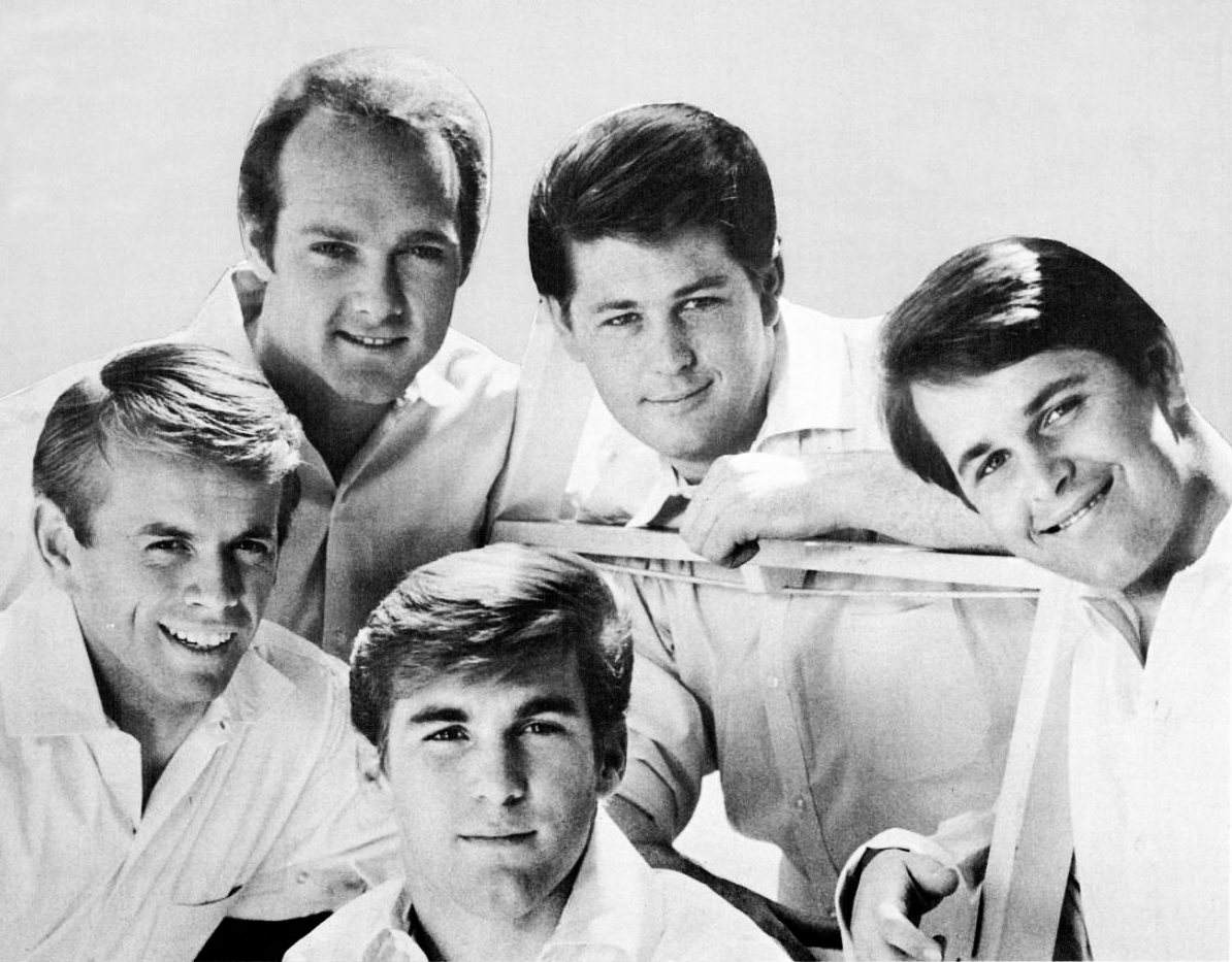 Trade ad for The Beach Boys's single "California Girls" / "Let Him Run Wild".To better adapt it to his respective Wikipedia article, the ad was cropped and cleaned in a graphics editing program. The original can be viewed at the source below.